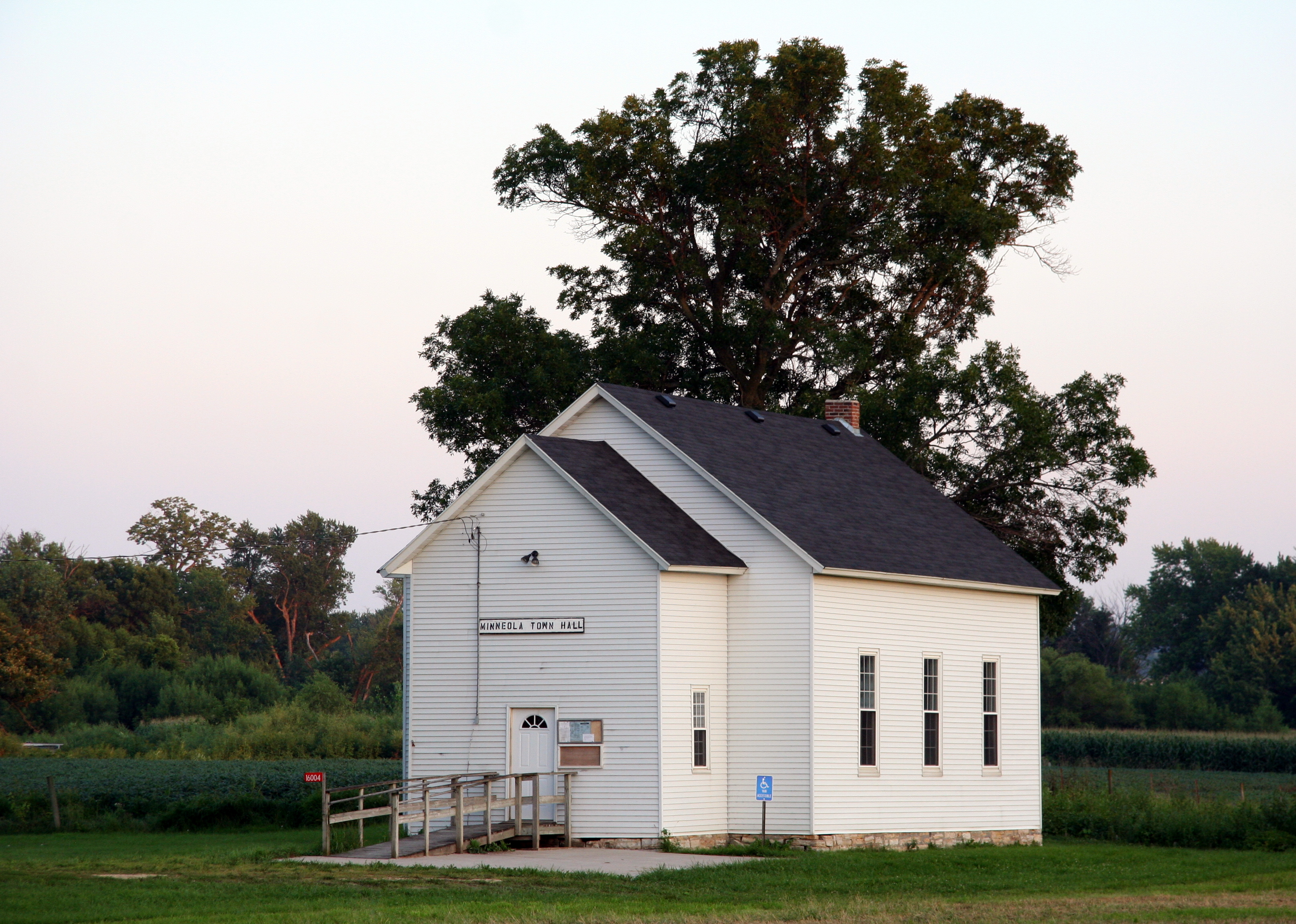 Minneola Town Hall seen from the west side of U.S. Highway 52 in Minneola Township, Goodhue County, Minnesota